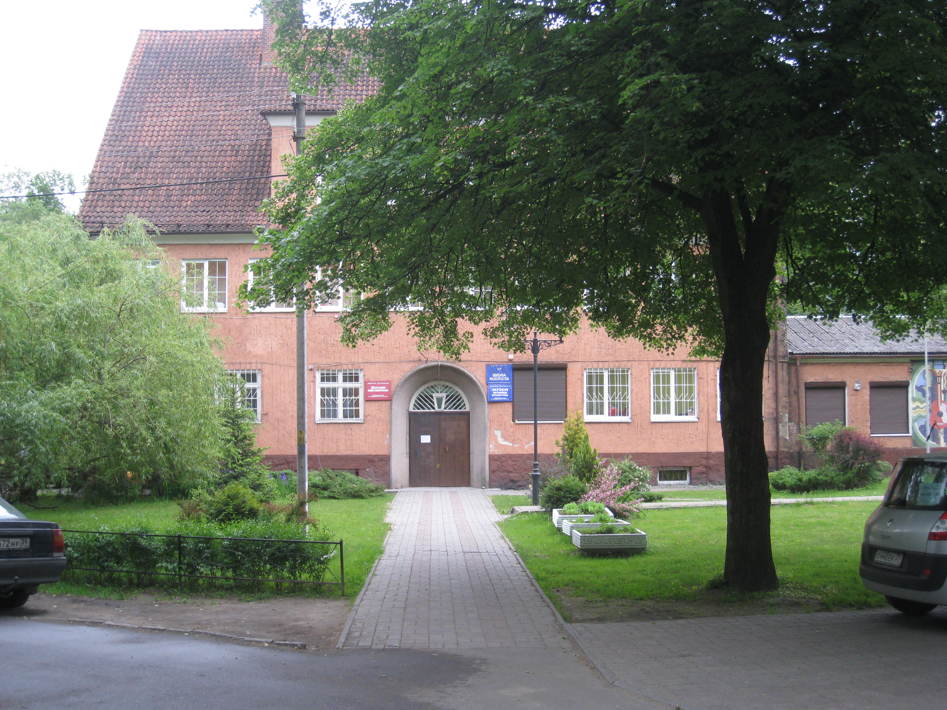 building